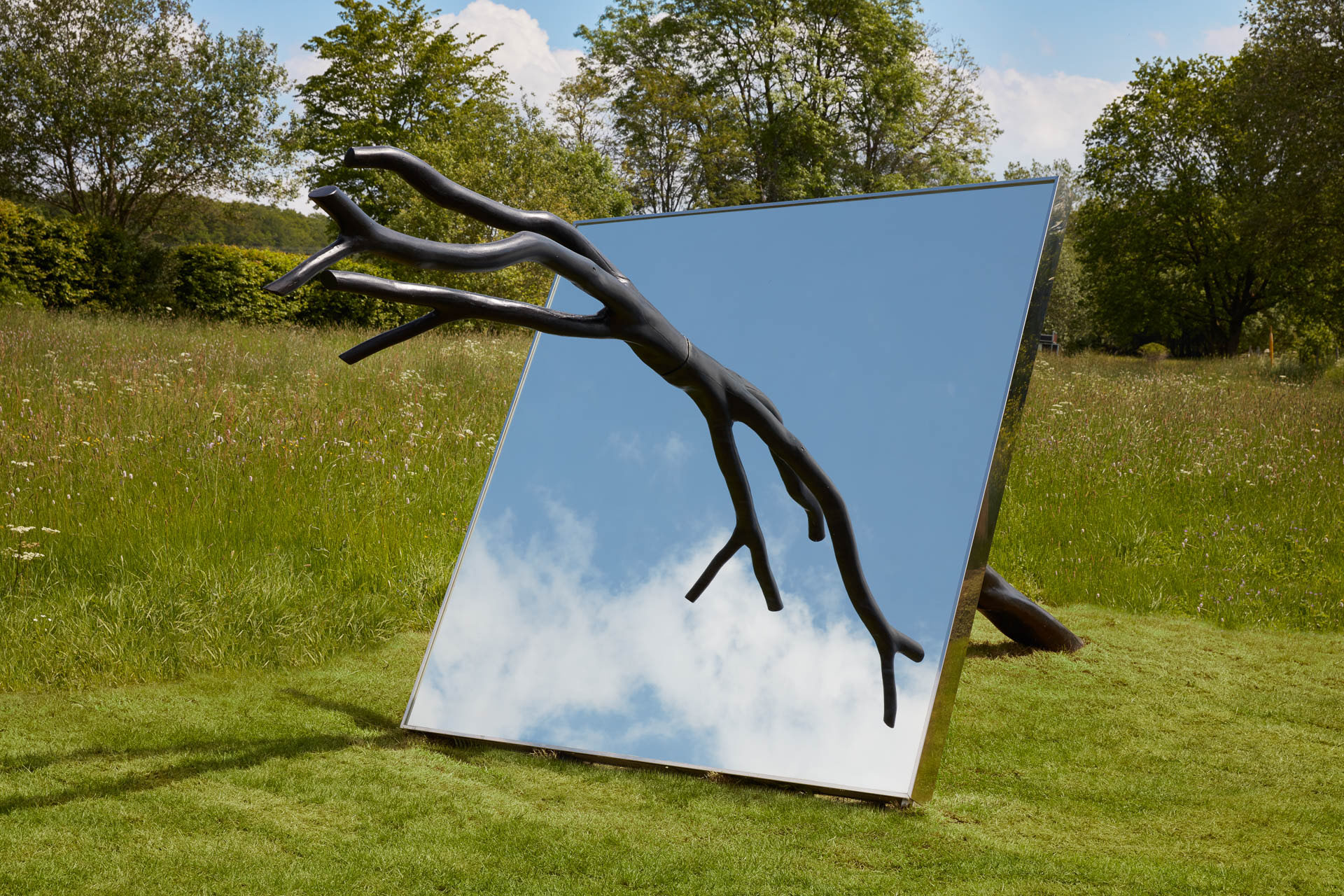 Birgitta Weimer ‘Reflecting Gaia’, 2019, contribution to the exhibition ‘Drei-Haeuser-Kunstpfad 2019’ in Daun (Eifel), Germany